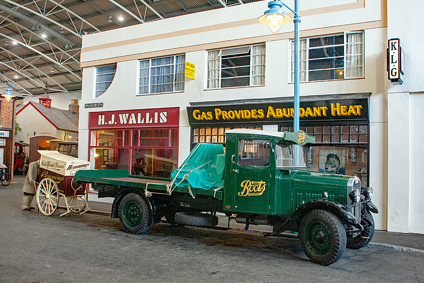 Thornycroft Bulldog lorry of 1931 in the Milestones Musem registration number TV 5530.